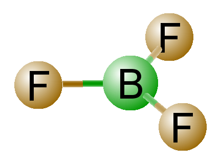 Geometry of molecul boron trifluoride BF3